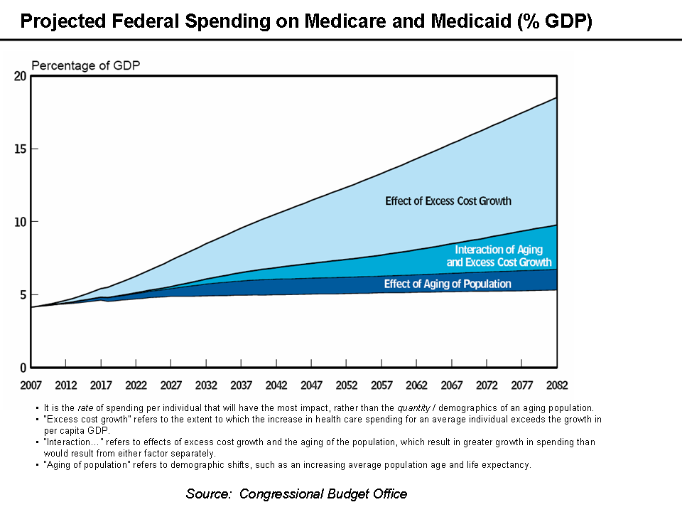 Medicare and Medicaid as % GDP Explanation: Eventually, Medicare and Medicaid spending absorbs all federal tax revenue, which has averaged around 19% of GDP for the past 30 years.